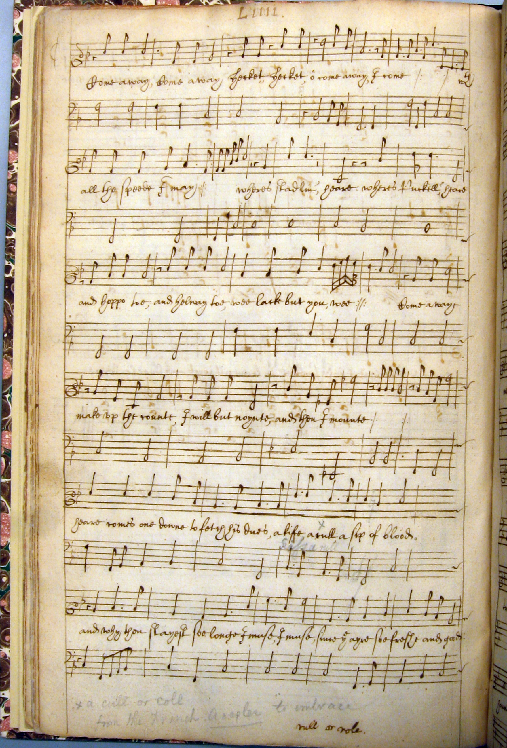 "Come away, Come away hecket," lyric by Thomas Middleton; music attributed to Robert Johnson, from the play The Witch as found in Drexel 4175, a music manuscript which is an important source for seventeen-century English song, belonging to the New York Public Library.